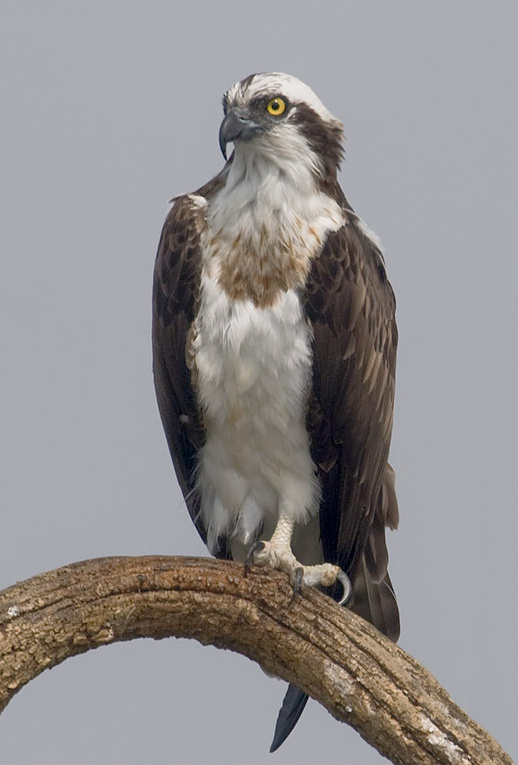 Osprey